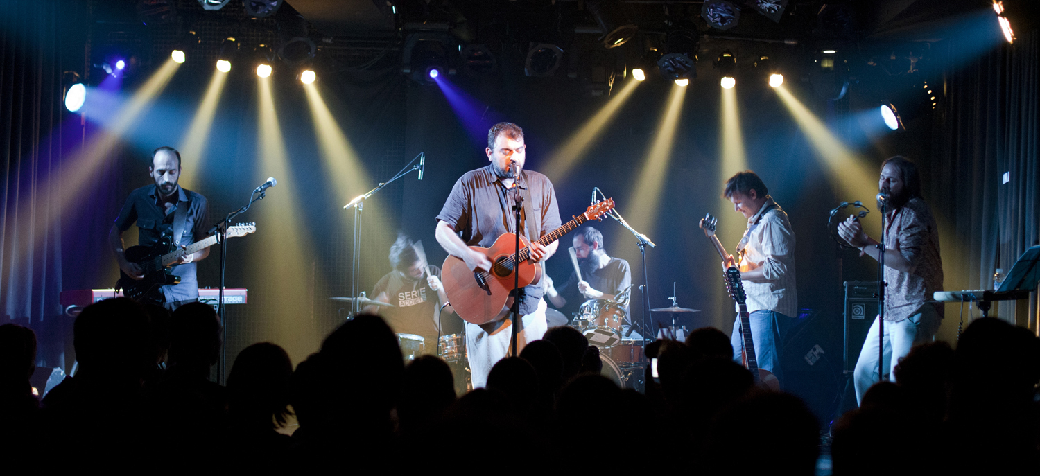 Inspira in the Sala Apolo, Barcelona, Spain.